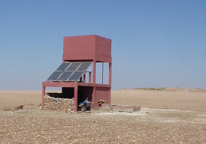 Solar panel for a well in the semi-desertic area of Rhamna, 50 km from Marrakech, Morocco